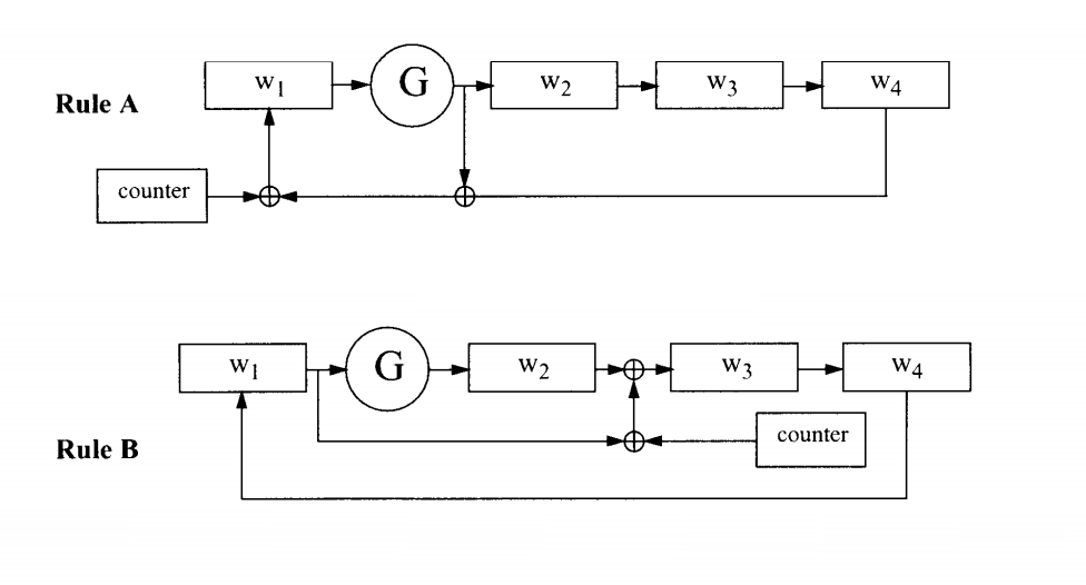 Skipjack: algorithm's stepping rules